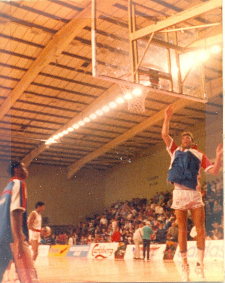 Portsmouth FC Basketball Club v Calderdale Explorers, National Cup semi-final, Aston Villa Leisure Centre, Birmingham, November 30th 1986. Portsmouth's Danny Williams (right) lays-up in the warm-up.